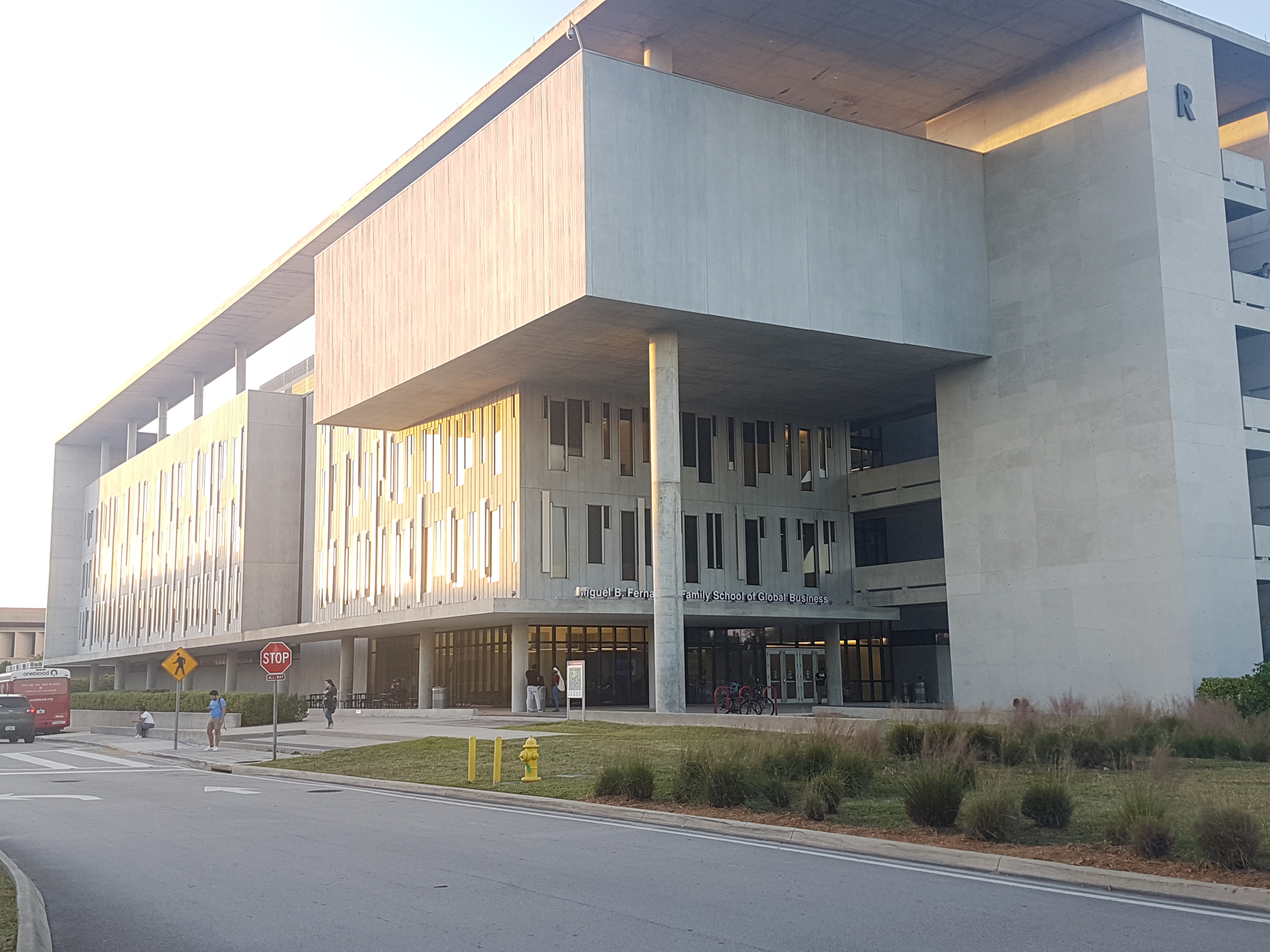 Miami Dade College Kendall Campus, building R .